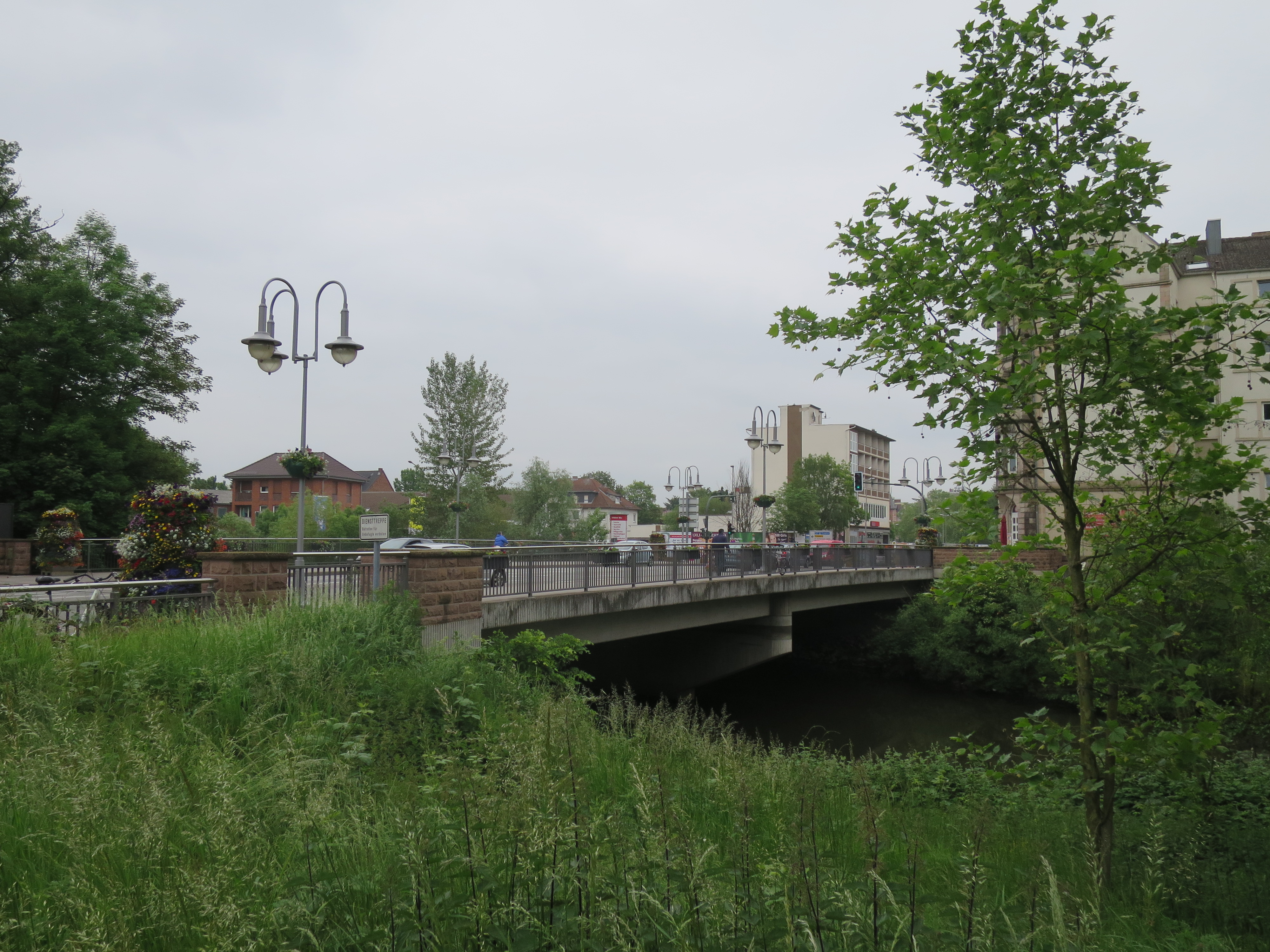 Wilhelmabrücke, Hanau, Germany